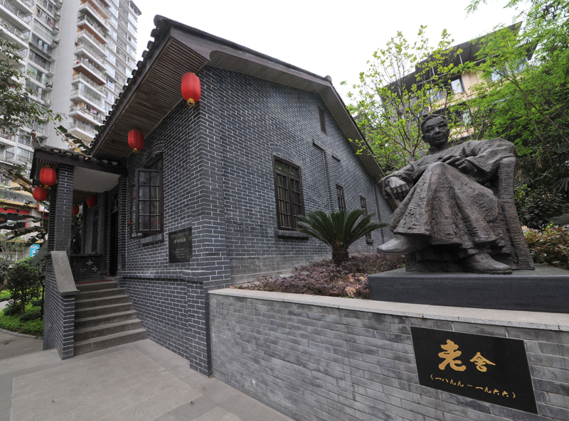 An image of Lao She's former residence in the Donghuamen district of Beijing.